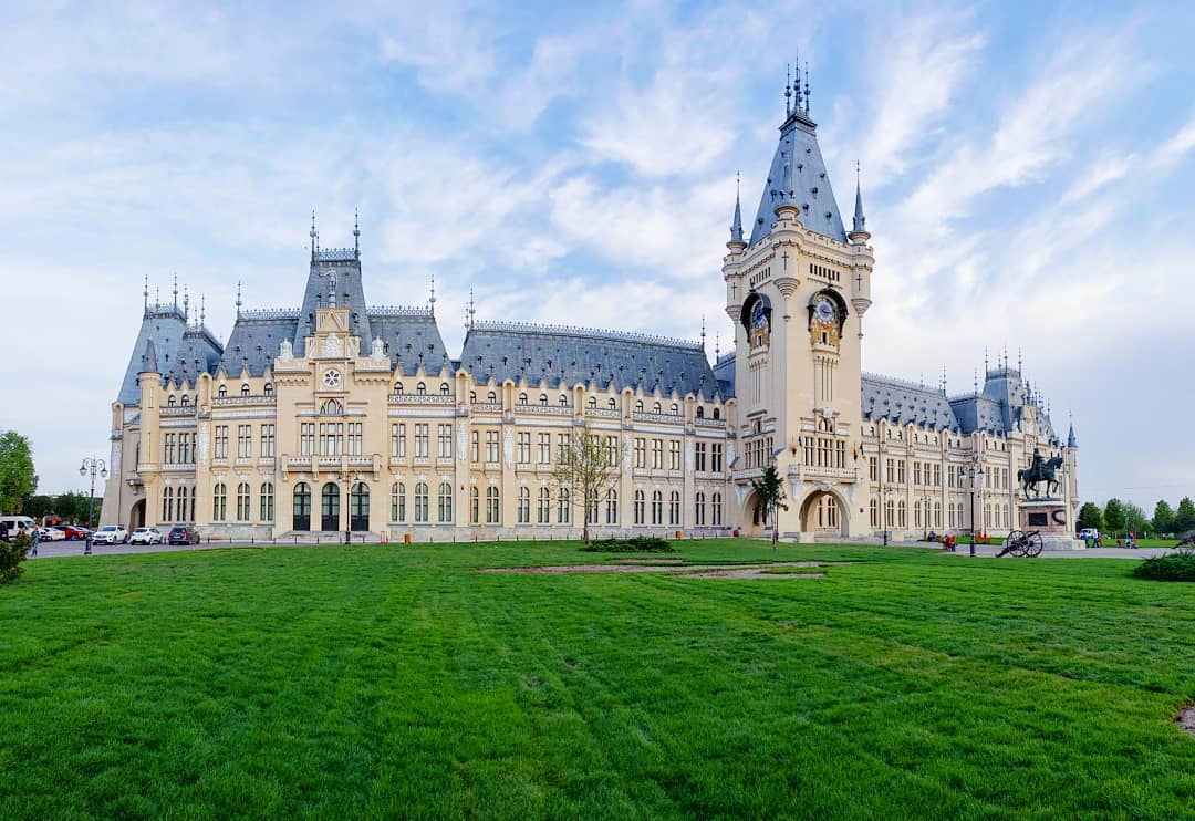 Palace of culture, I own all the rights from the author